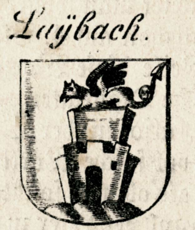 Crest of Ljubljana, Valvasor, Glory of the Duchy of Carniola, XIII (9), 1689